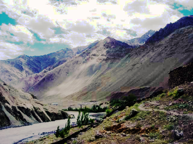 The Indus Valley at Alchi.